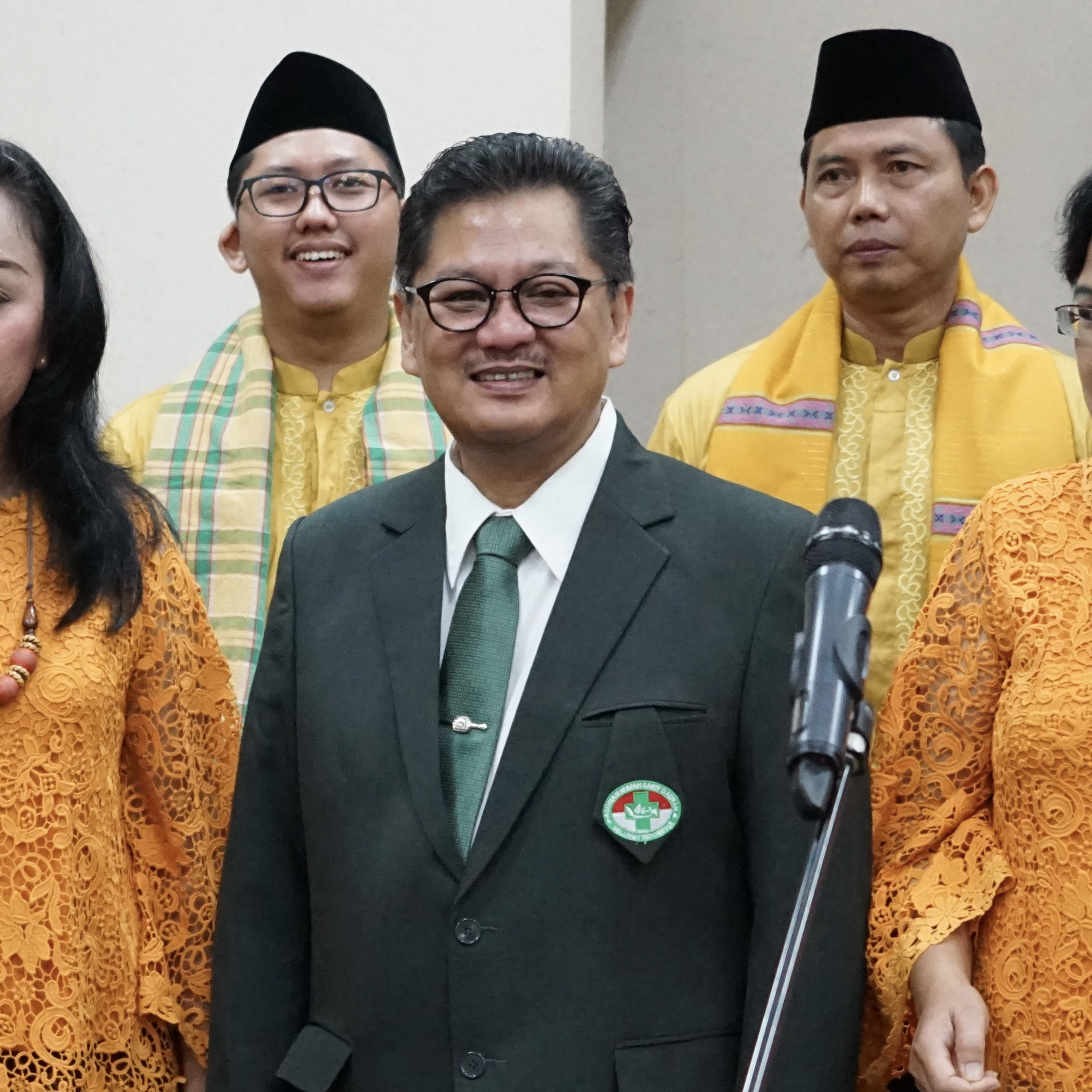 dr. R. Koesmedi Priharto, Sp.OT, FICS, FAPOA, M.Kes. is an Indonesian orthopedist and former Head of Health Department of Special Capital Region of Jakarta (2015-2018). He has a strong public health background and healthcare management. To name a few, he's the founder of Ketuk Pintu Layani Dengan Hati (KPLDH), a community based healthcare services in Jakarta. He also successfully revitalised RSUD Tarakan financially and upgraded it to class A hospital from class B hospital.